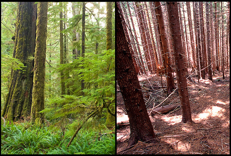 Seen here is a comparison of an old-growth forest (left) and a second growth tree plantation (right). Second growth forests lack the ecological complexity that old-growth develops over hundereds or even thousands of years of evolutionary change. The open canopy structure of old-growth caused by older trees falling down allows for light to reach the forest floor and provide new growing conditions for younger trees and plants. The closed canopy of second growth does not allow for much light to reach the ground, leaving the area homogenous and sparse.